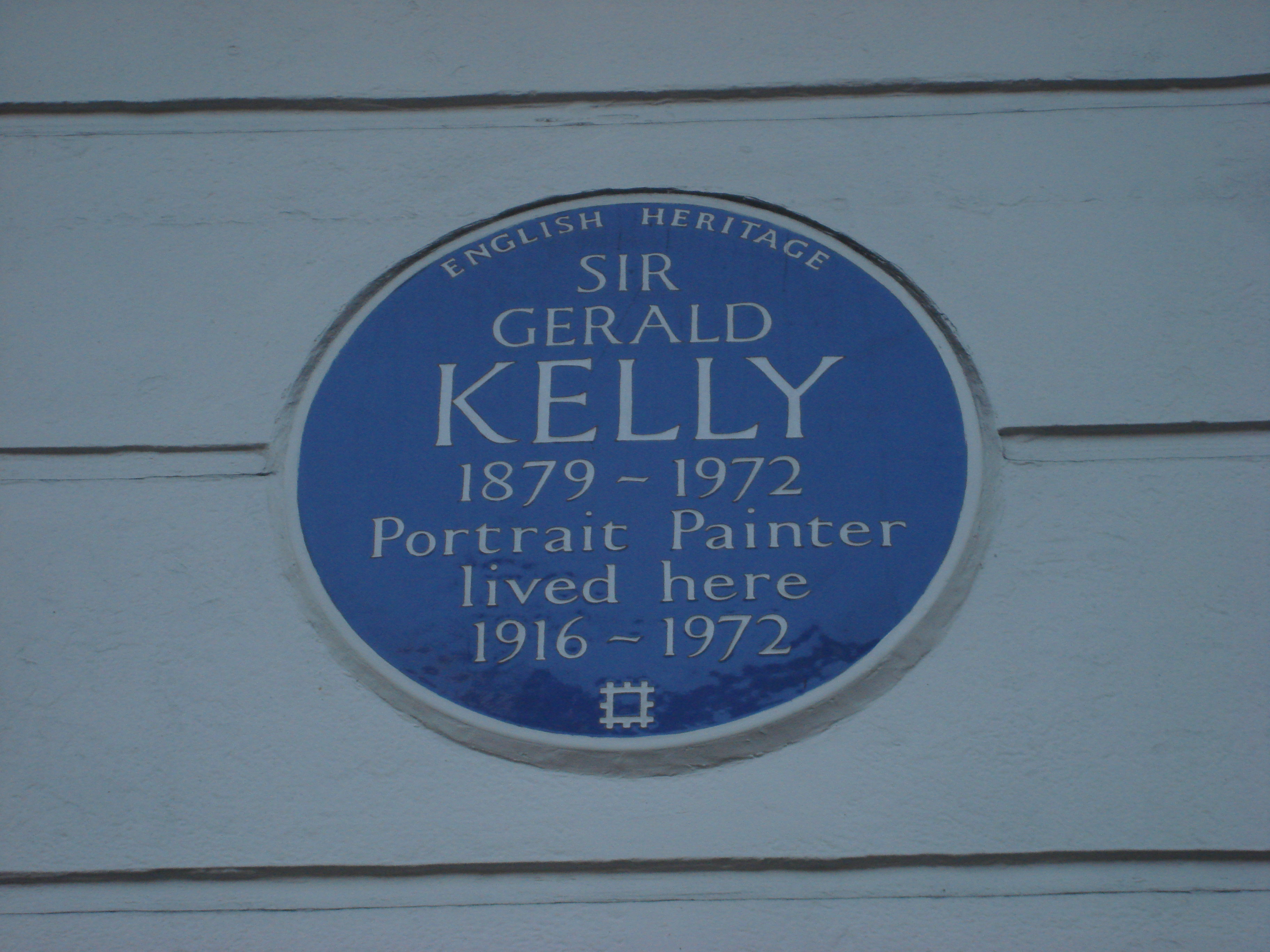 Sir Gerald Festus Kelly's English Heritage Blue plaque in London